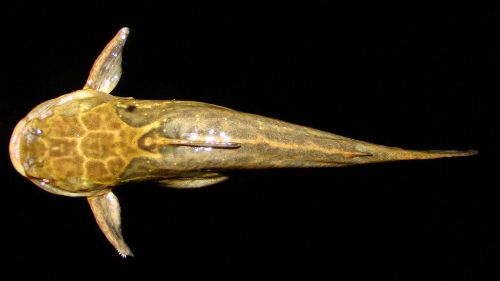 Top view of Trachelyopterus lucenai from a dam in Rio Grande do Sul, Brazil, photographed on December 2008.